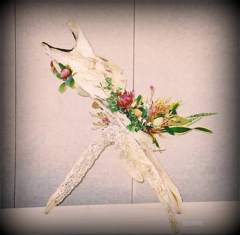 9.The above gendaika of freestyle Banmi Shofu design, created by Bessie Banmi Fooks in honor of the Year of the Horse in 2002 uses two large pieces of driftwood joined together as a free standing frame (the Horse), for Queen Protea, Bromeliad blooms, Sanseverria, and Goodeniaceae, sp. Scaevola